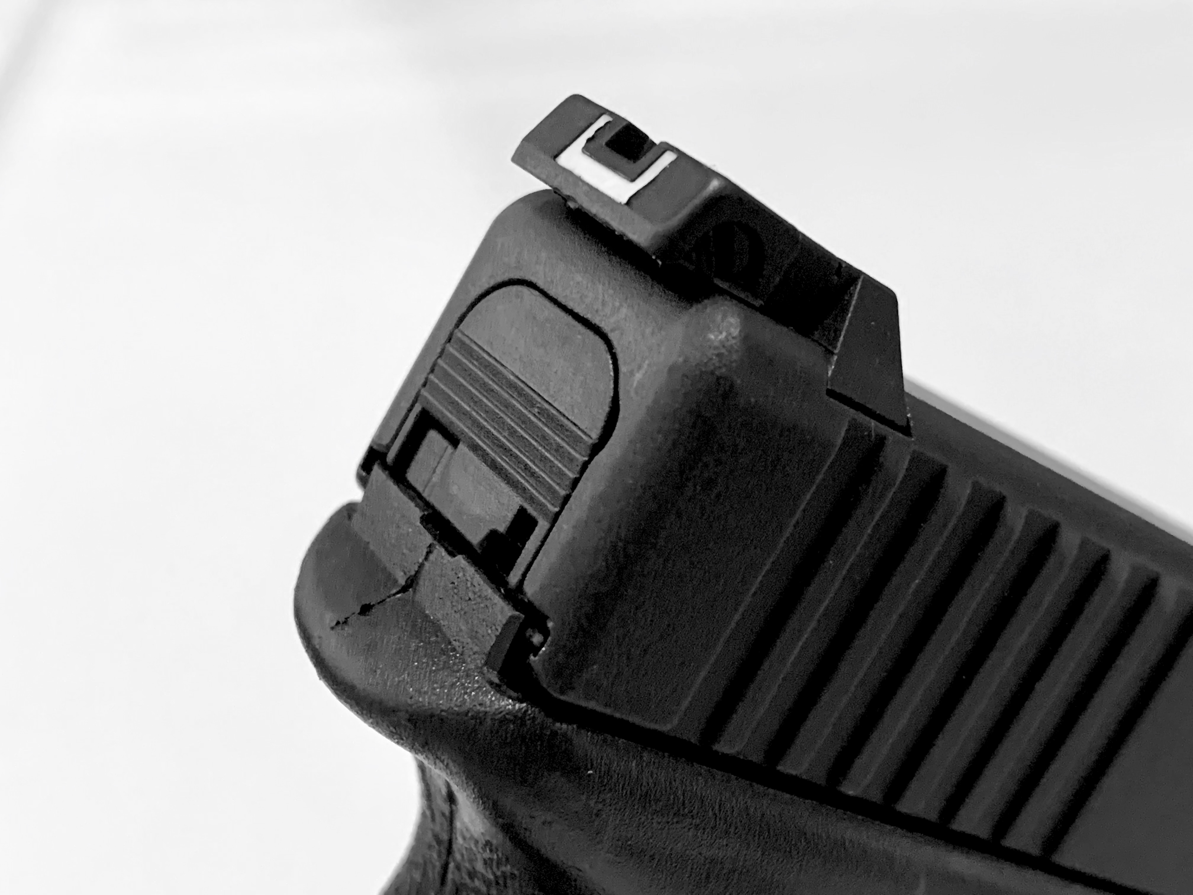 Early rear adjustable sight created to allow for importation to USA in 1986.